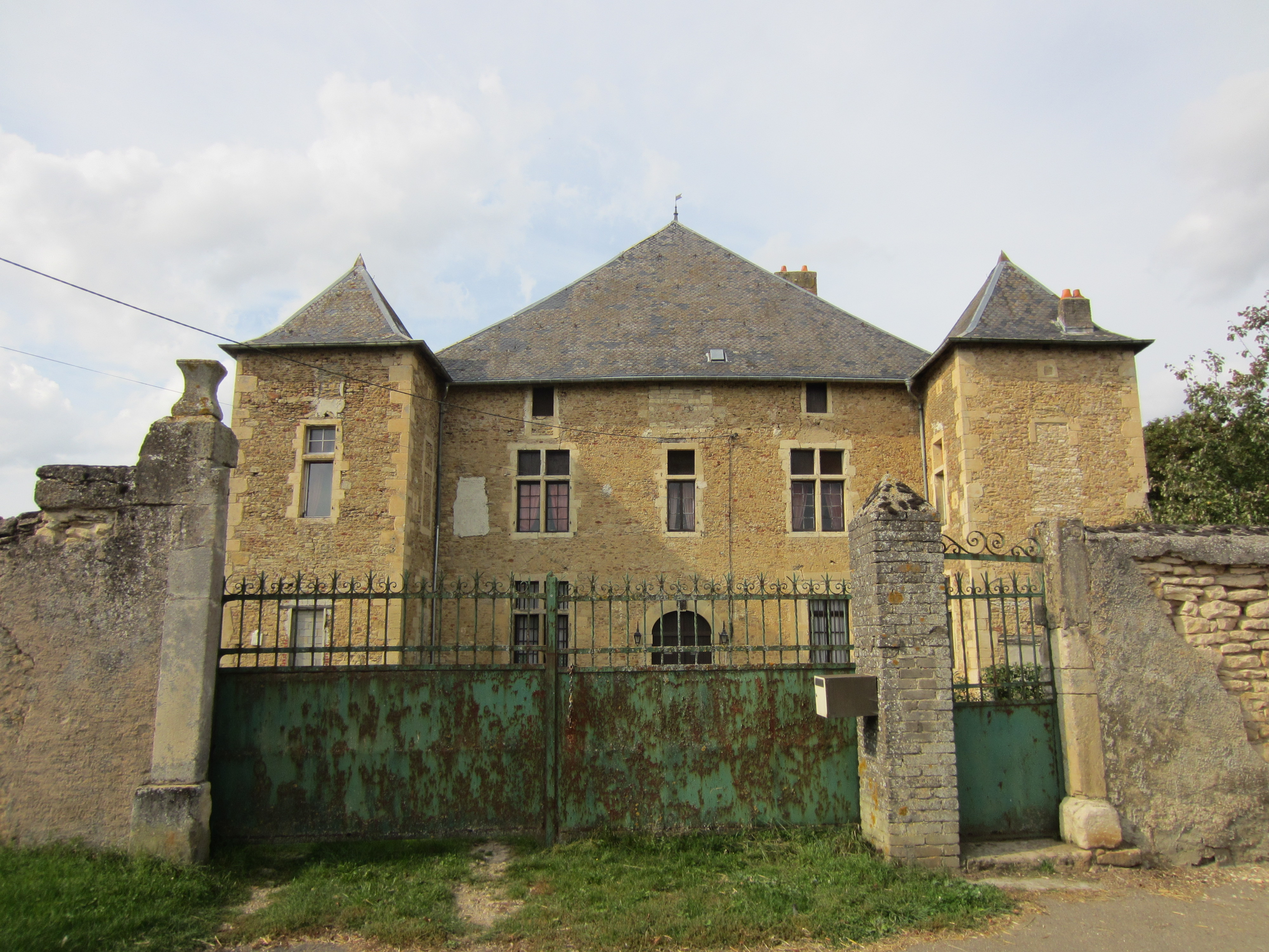 Xonville Castle (Lorraine).